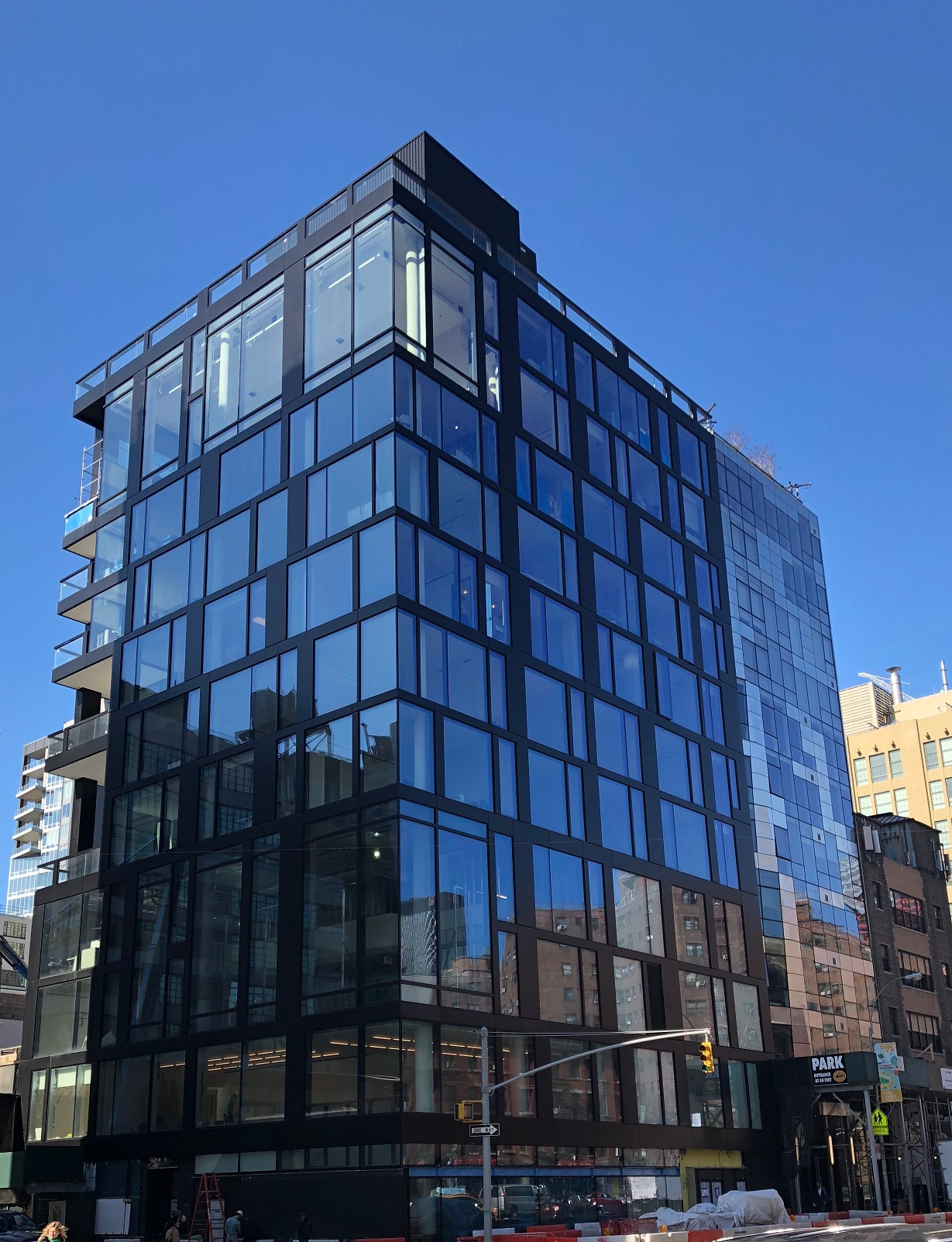 Getty Residences at the Getty Building in New York City.